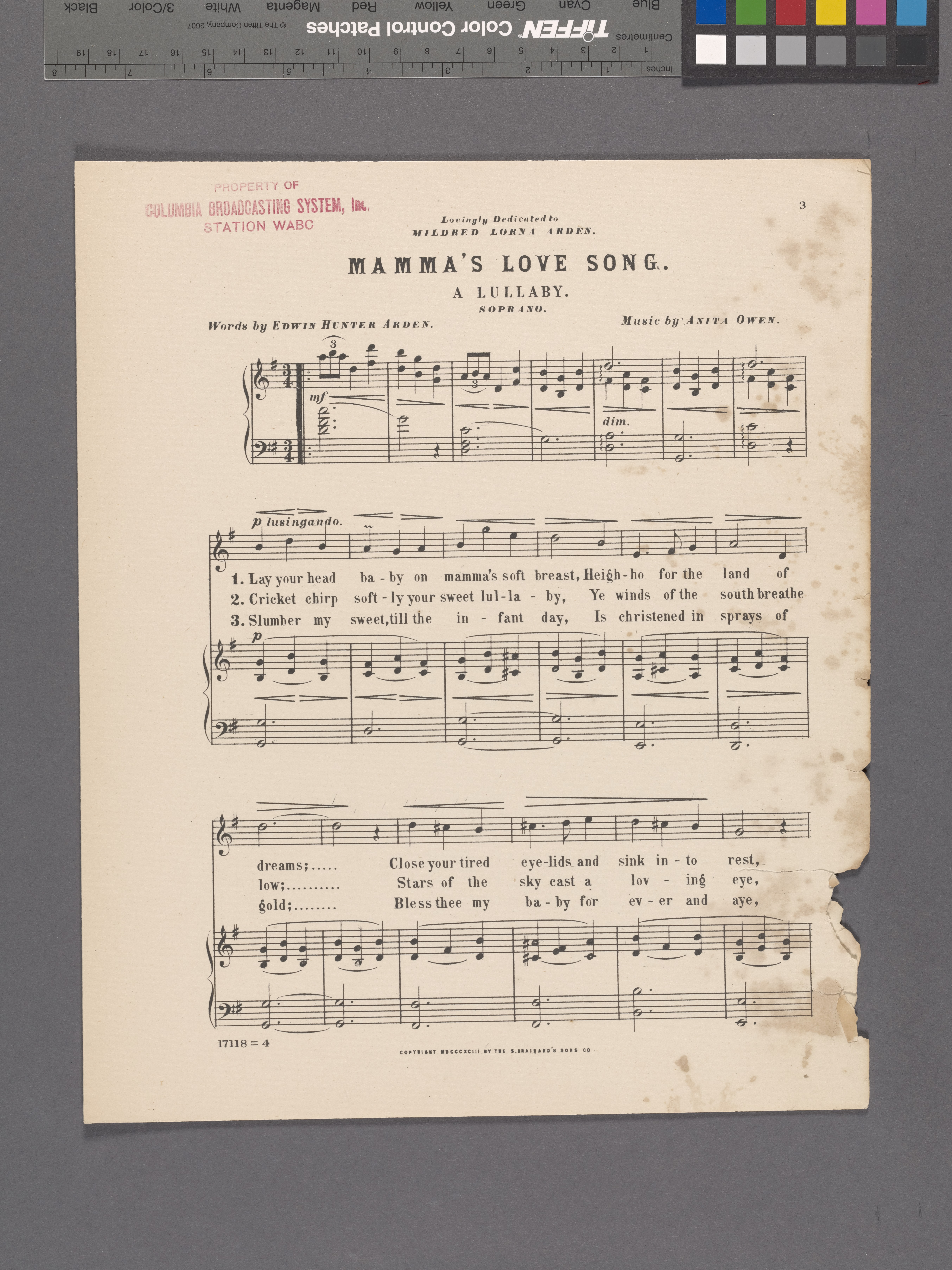 Cover has drawings of a mother and children and infants of various ages. Above caption title: Lovingly dedicated to Mildred Lorna Arden. On cover: A lullaby as sung by Miss Lily Post. Ownership : Gift of the Columbia Broadcasting System, Inc. Property stamp on cover. Version in G major for soprano. Statement of responsibility : words by Edwin Hunter Arden ; music by Anita Owen.